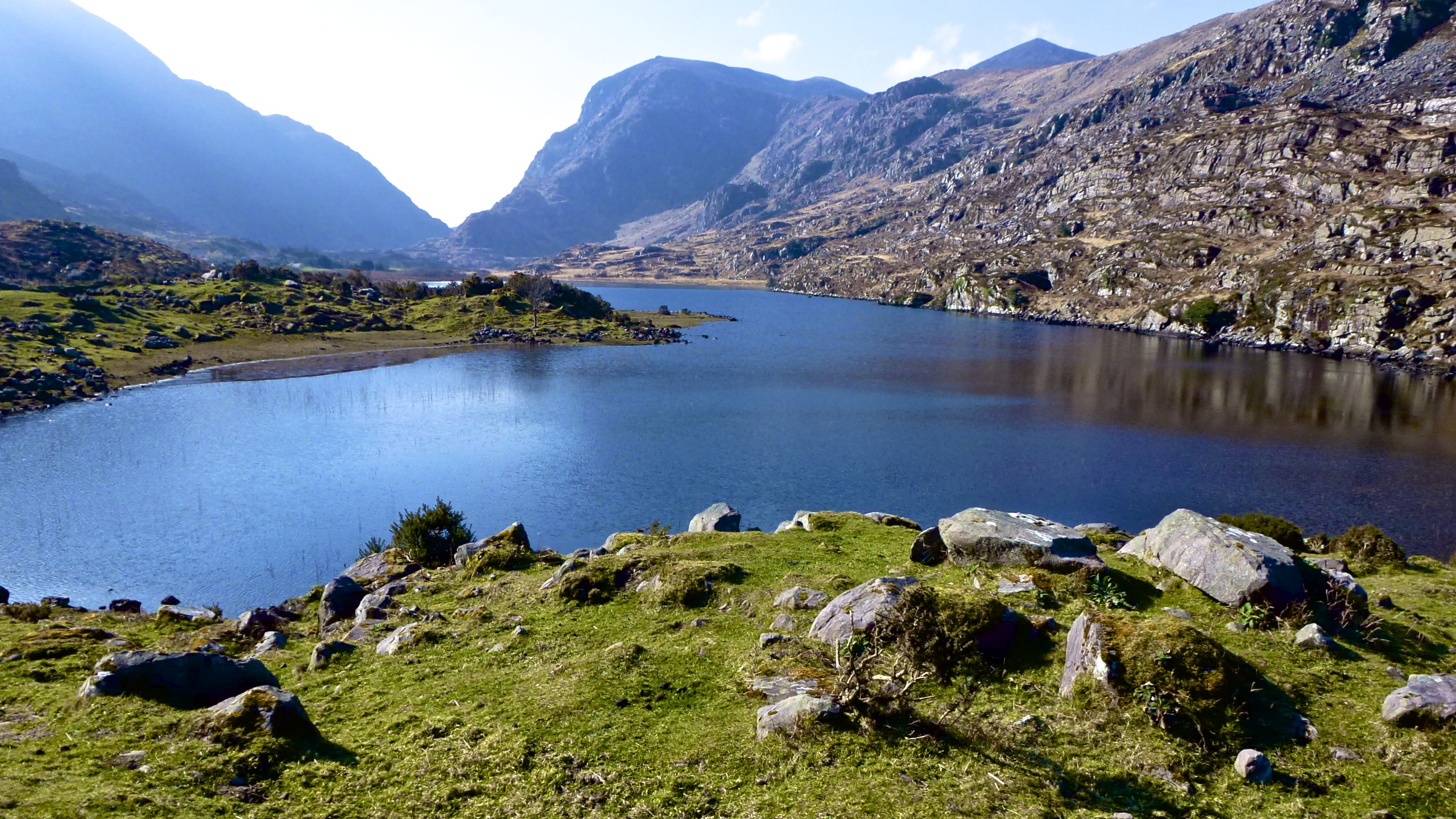 Gap of Dunloe, Co. Kerry, Ireland. Facing south.